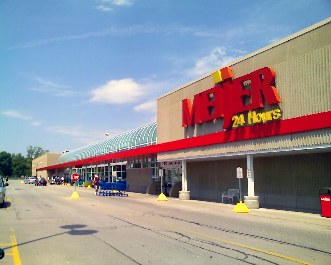 A Meijer store in Midland, Michigan on July 16, 2006. Taken by me on my RAZR phone, released into PD.